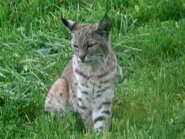 Bobcat at Blue Ridge National Wildlife Refuge